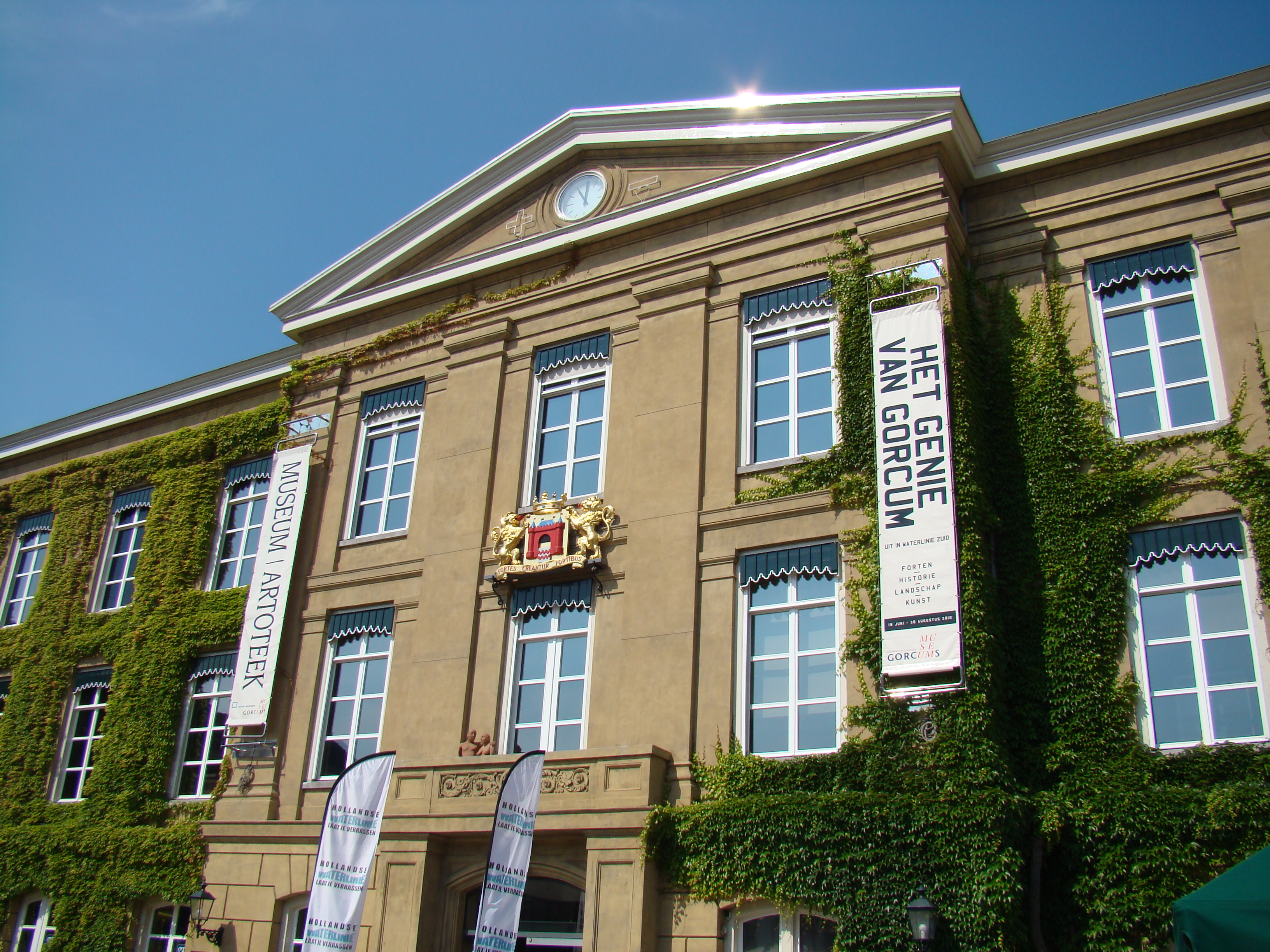 The old Gorinchem townhall, now Gorcums Museum